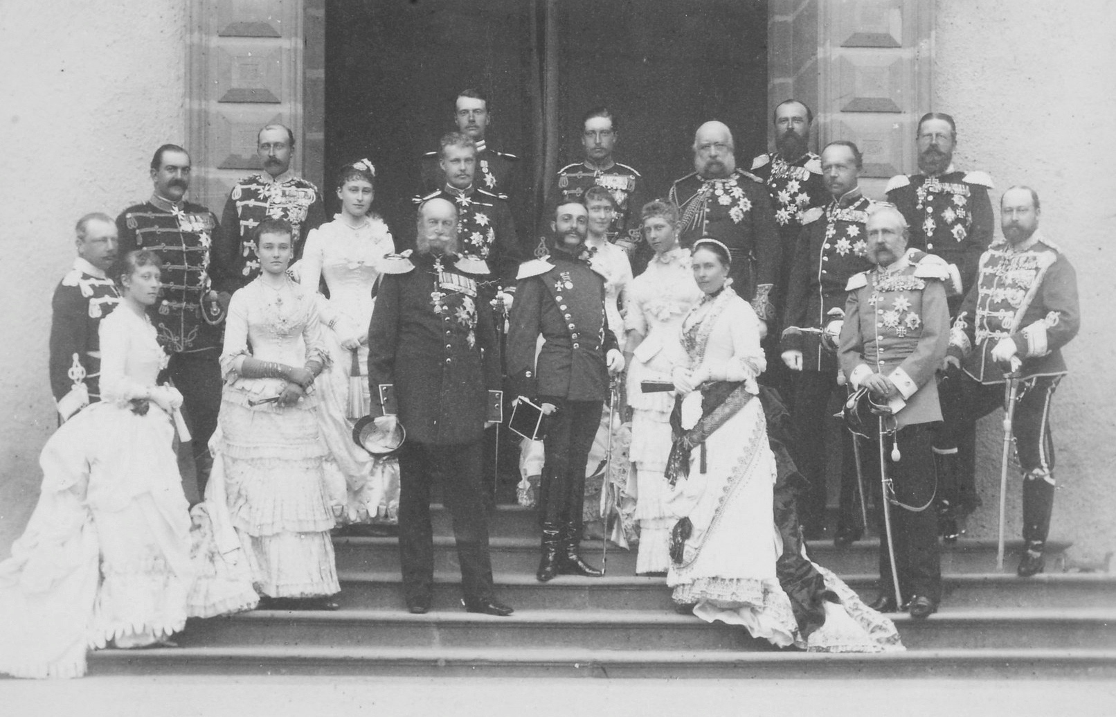 Photographs of a group standing on the steps of Homburg Castle featuring 20 subjects from various European Royal houses. These include Carlos I King of Portugal (1863-1908), Alfonso I King of Spain (1857-1885), Edward, Prince of Wales (1841-1910) later King Edward VII and Wilhelm I (1797-1888) Emperor of Germany.